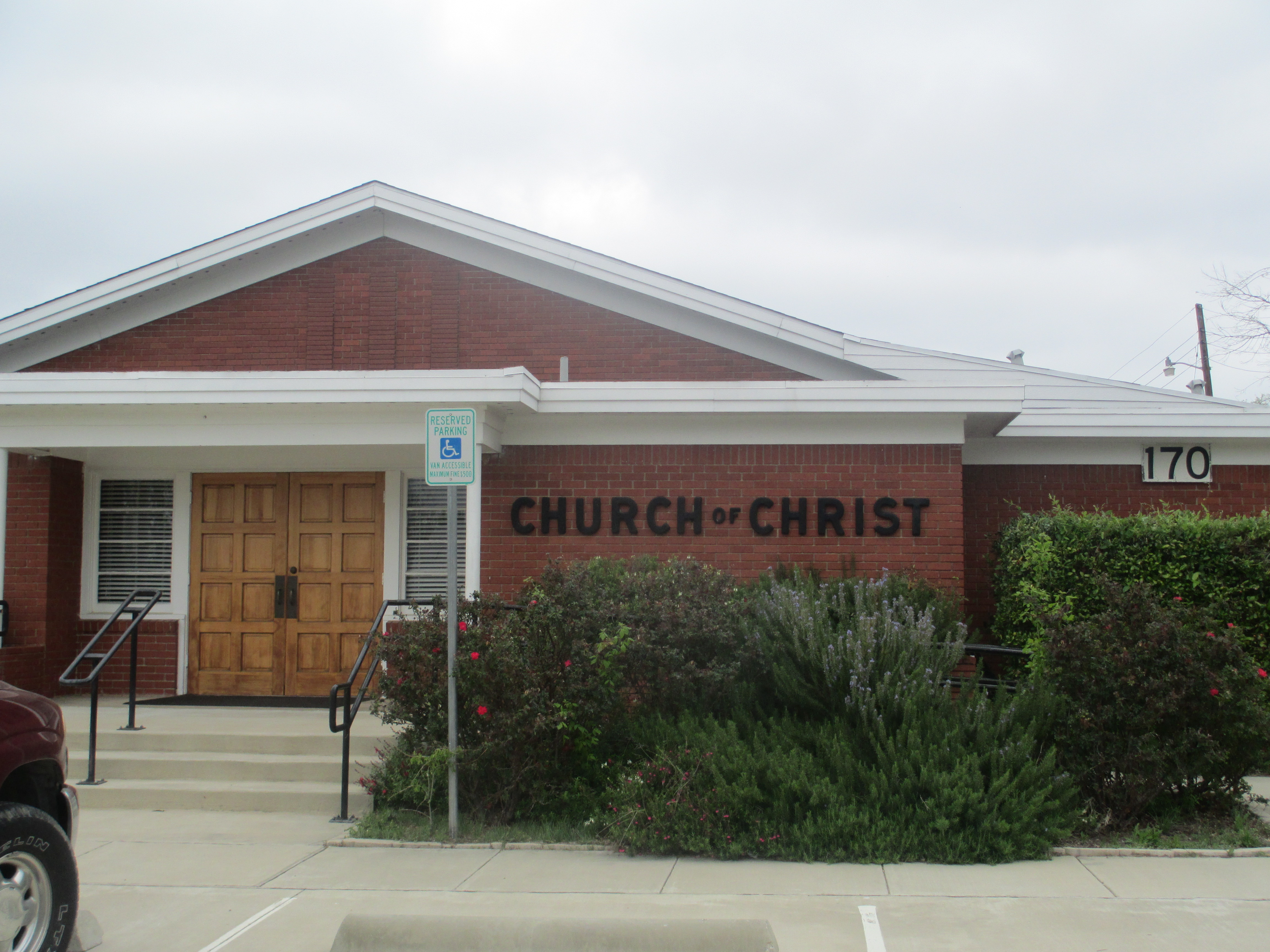 Across from City Hall in Rhome, TX, is the Church of Christ, photographed by Canon camera, April 7, 2013. Billy Hathorn (talk) 01:56, 10 April 2013 (UTC)